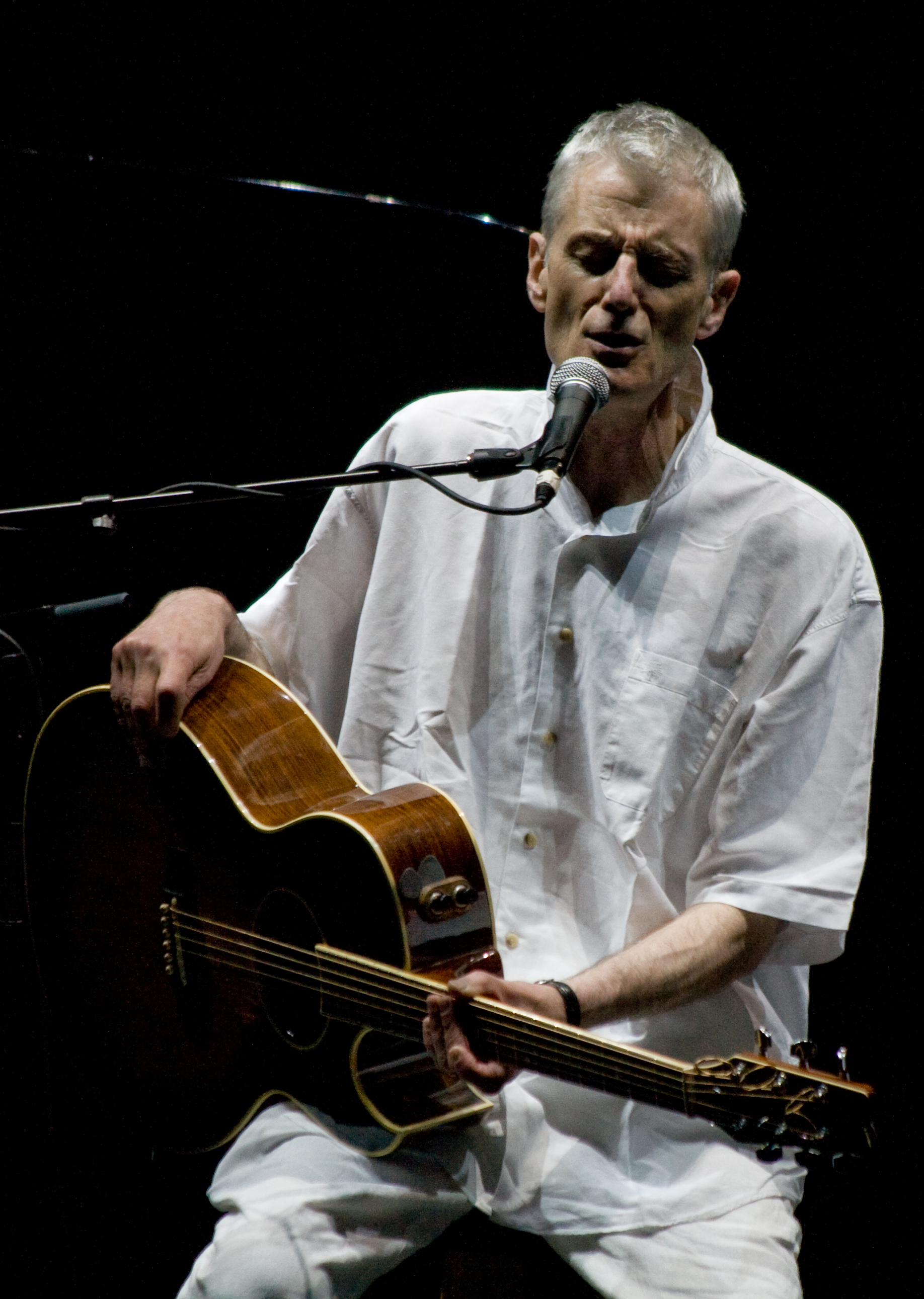 Peter Hammill onstage solo at Nearfest 09 in Bethlehem, PA.